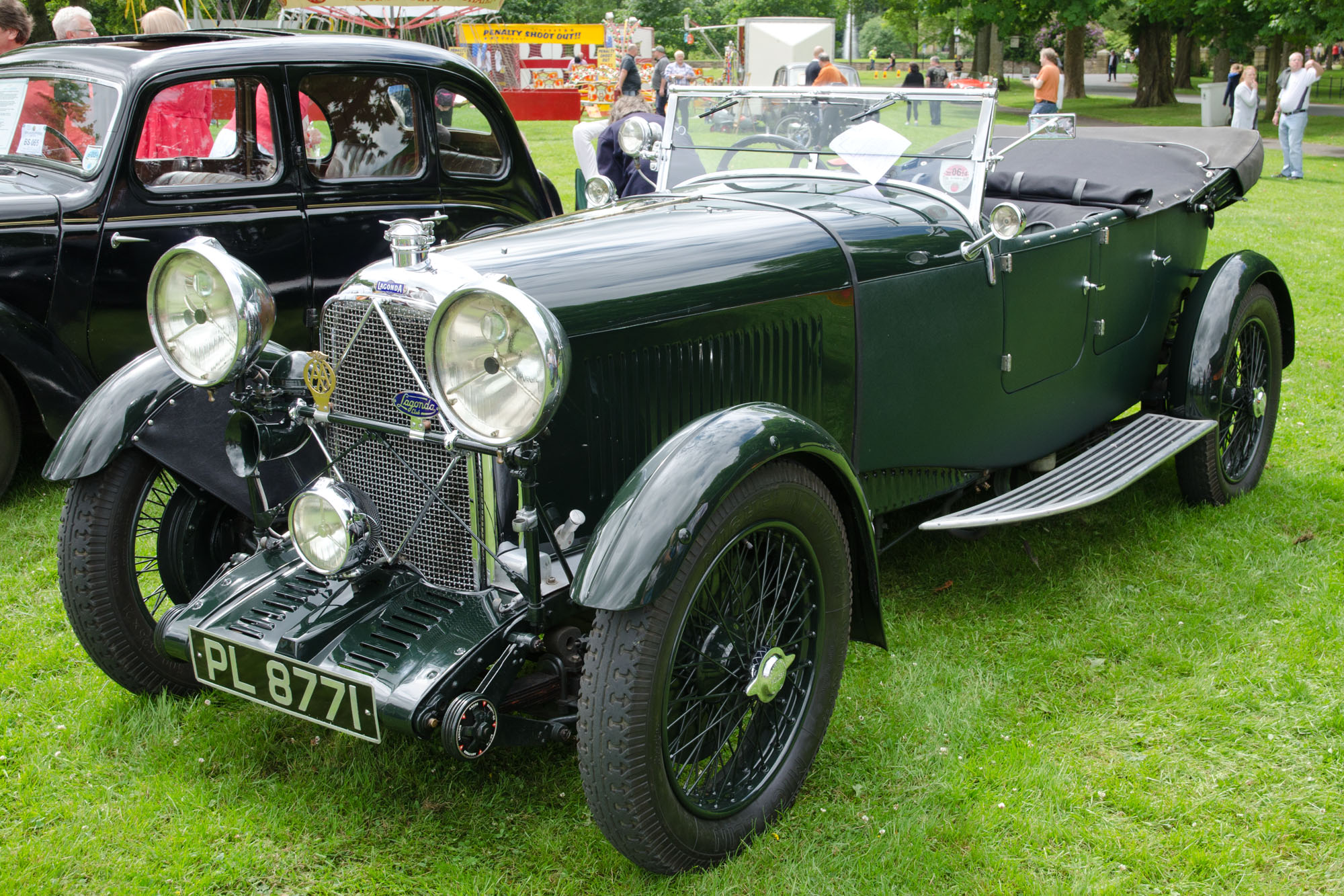 1931 Lagonda 2 Litre Supercharged Tourer (DVLA) first registered 8 June 1931 1954 cc Burnley Classic Car Show at Towneley Park 29/06/2014